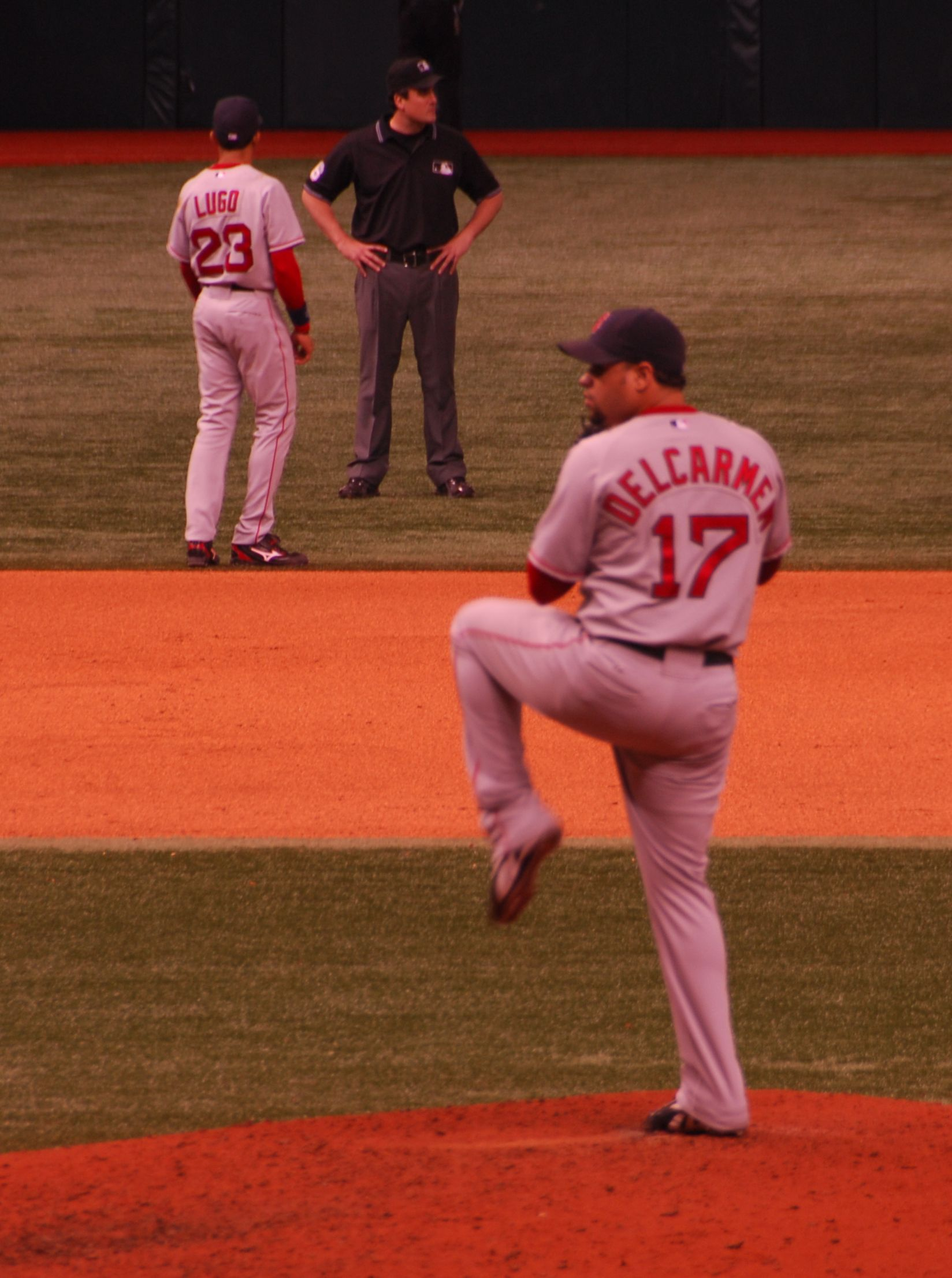 Manny Delcarmen warming upDelcarmen Warms